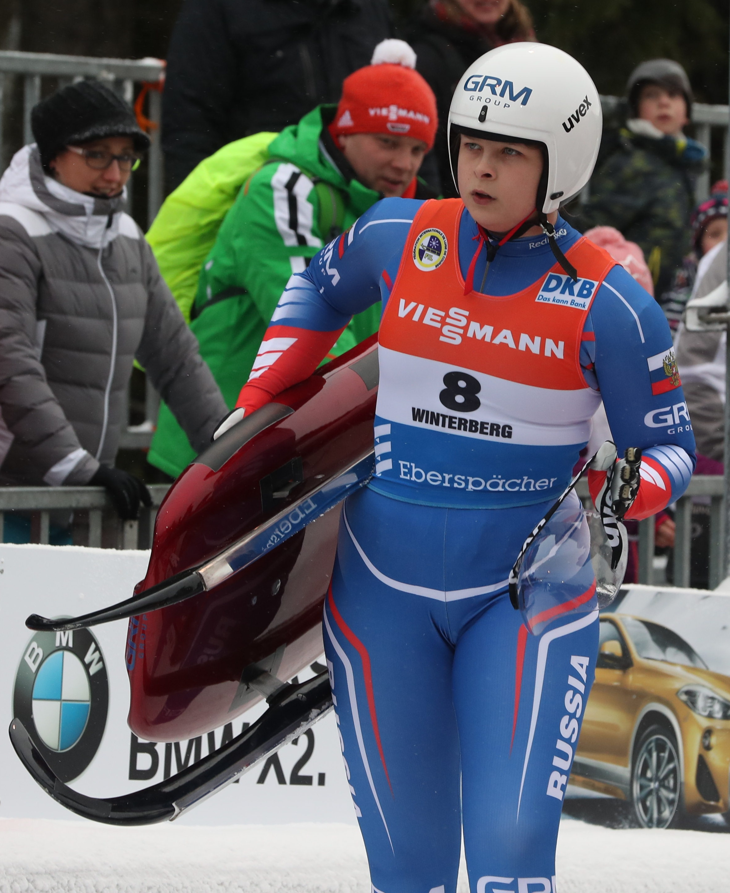 Luge World Cup Women in Winterberg: Victoria Demchenko